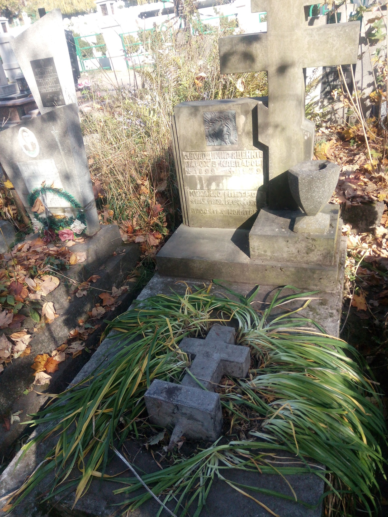 Tomb of Rev. Volodymyr-Marian Yatsenkiv, Yaniv cemetery, Lviv.